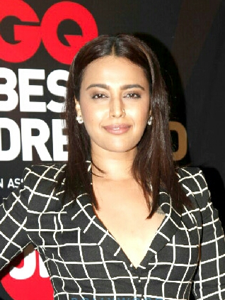 Swara Bhaskar at GQ Best Dressed Awards 2017.